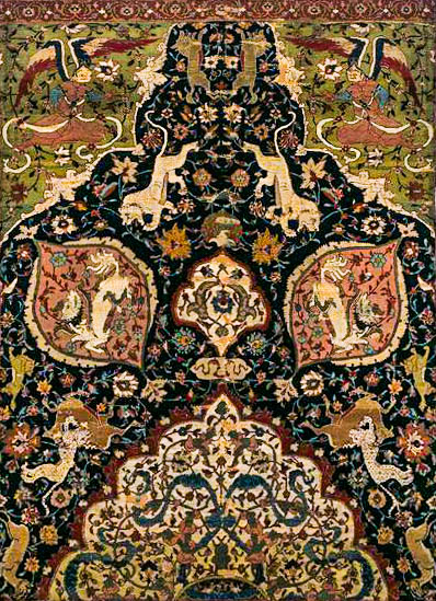 Iranian carpet "Heyvanlı" from Tabriz